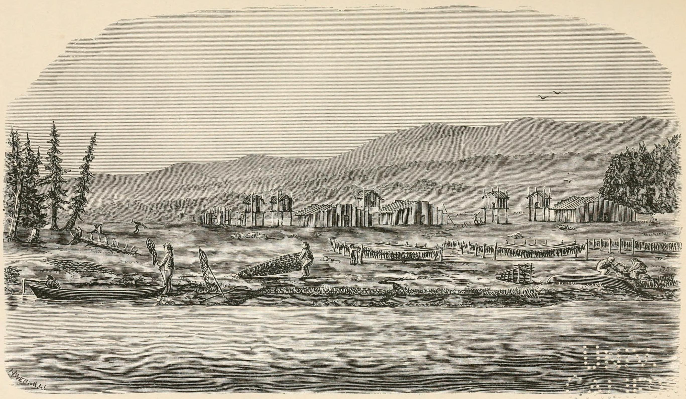 Indian village on the lower Yukon during fishing season, 1868 Dall provides the following description - not of the illustration but probably of the same village (if so, the drawing has been simplified): "...about noon stopped at a village where the inhabitants were engaged in fishing. It is only by personal inspection of such a village that any one can obtain an adequate idea of the immense quantity of fish which is annually caught and dried on the Lower Yukon. Several acres of ground in front of the summer houses were literally covered with standards and stages bearing line after line of fish, split and hung up to dry. The odor is borne to a great distance by the wind." "...long rows of caches are crammed with provisions for the winter. This condition of things holds good as far as Anvi'k. Beyond that point the fish are scarcer, and, as previously related, Nulato is far from furnishing food of any kind in plenty. In the foreground the different parts of fish-traps were lying, in readiness to repair any damage, or put down a new trap, if the water fell so as to render it necessary. Here some men were emptying the fish out of a basket, and there others were eturning with a canoe-load of salmon from some distant zapor." Dall pp 228-229